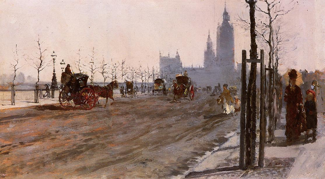 The Victoria Embankment, London